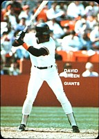 A baseball card of the San Francisco Giants' first baseman David Green from the 1985 Mother's Cookies San Francisco Giants trading cards set. The card is numbered #17 in the set.